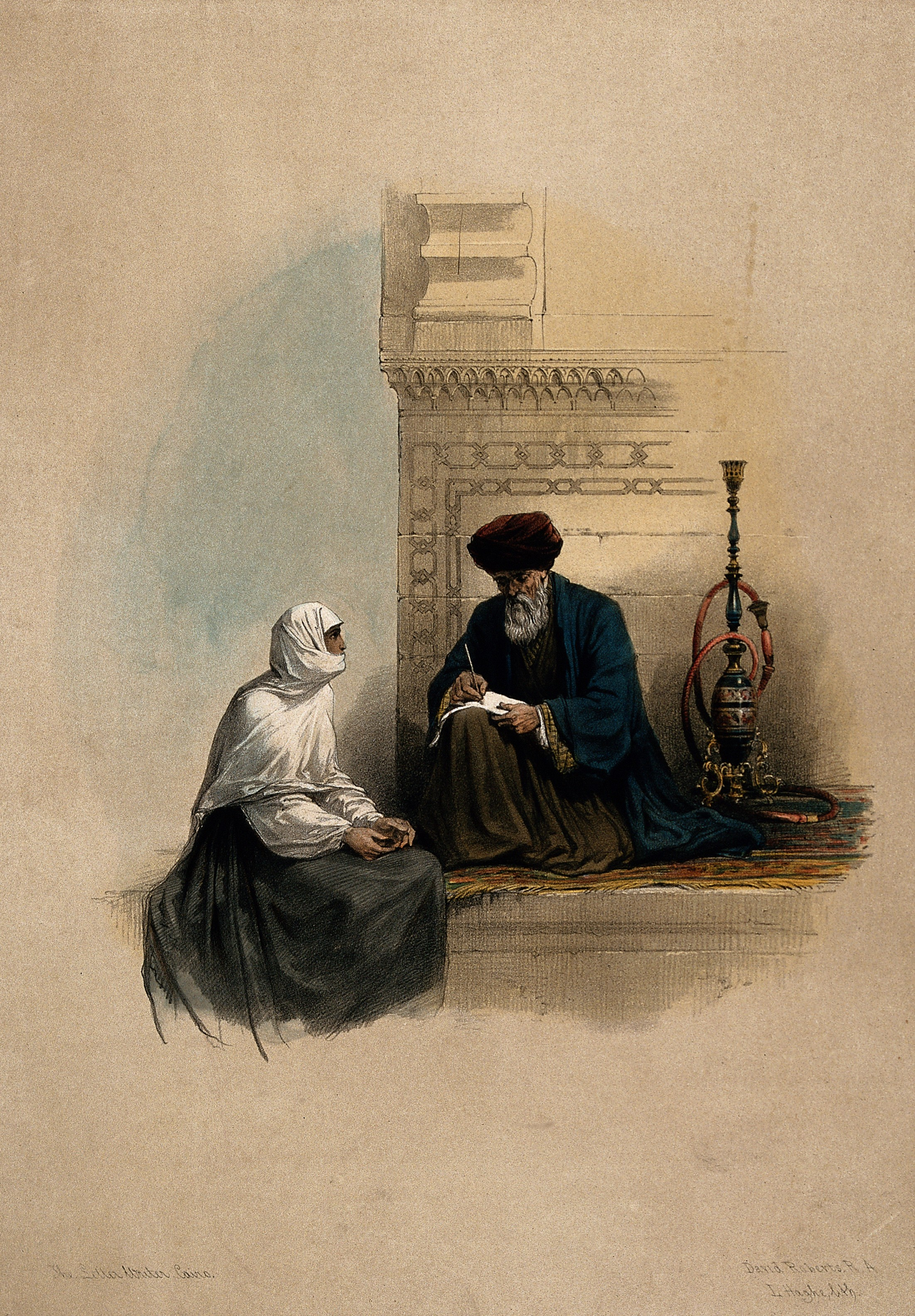 A Coptic Christian woman dictating a letter to a scribe, Cairo, Egypt. Coloured lithograph by Louis Haghe after David Roberts, 1849. Iconographic Collections Keywords: David Roberts; Louis Haghe